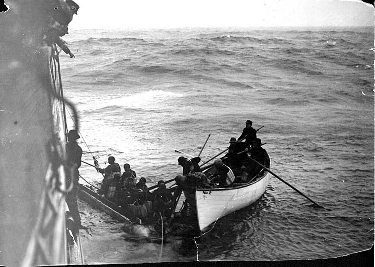 Survivors from the SS Valencia being picked up by the SS City of Topeka on January 24, 1906. Source: University of Washington Digital Collections